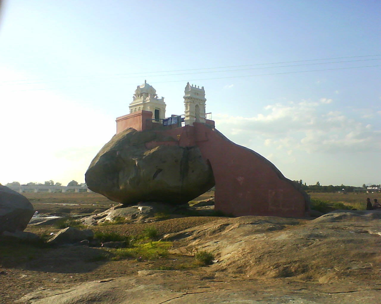 Kabilar's tomb built on a monolithic rock... Venue: Tirukoilur Thenpennai river, Villupuram district